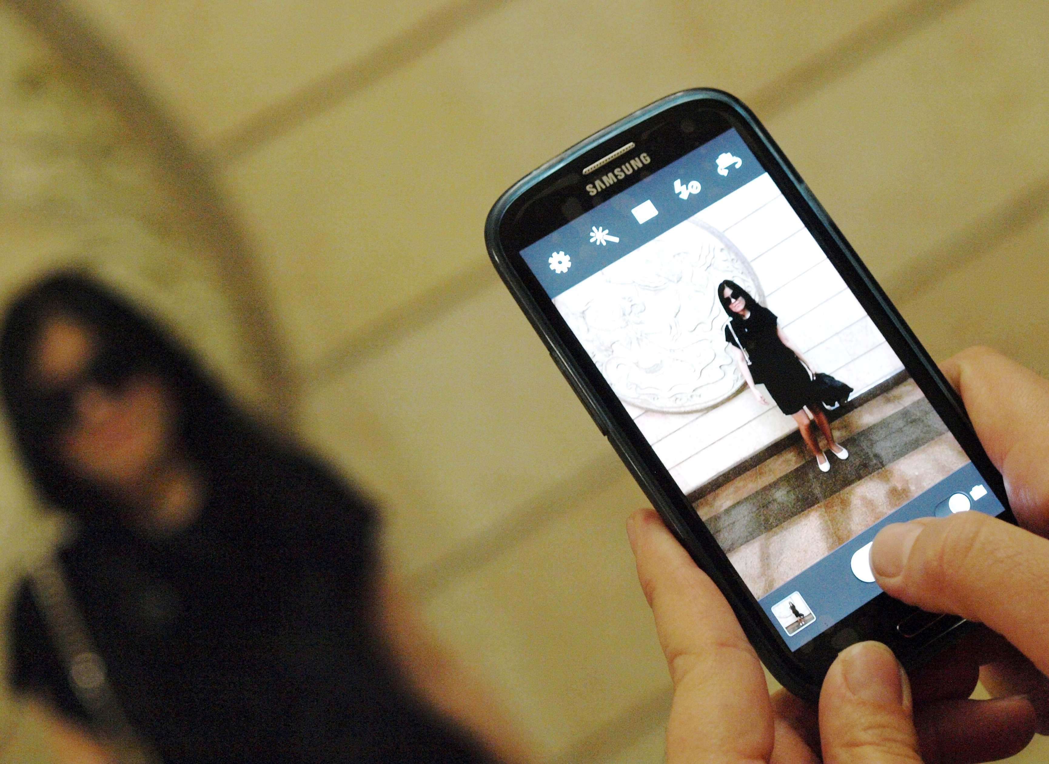 Taking a photograph with a cell phone.